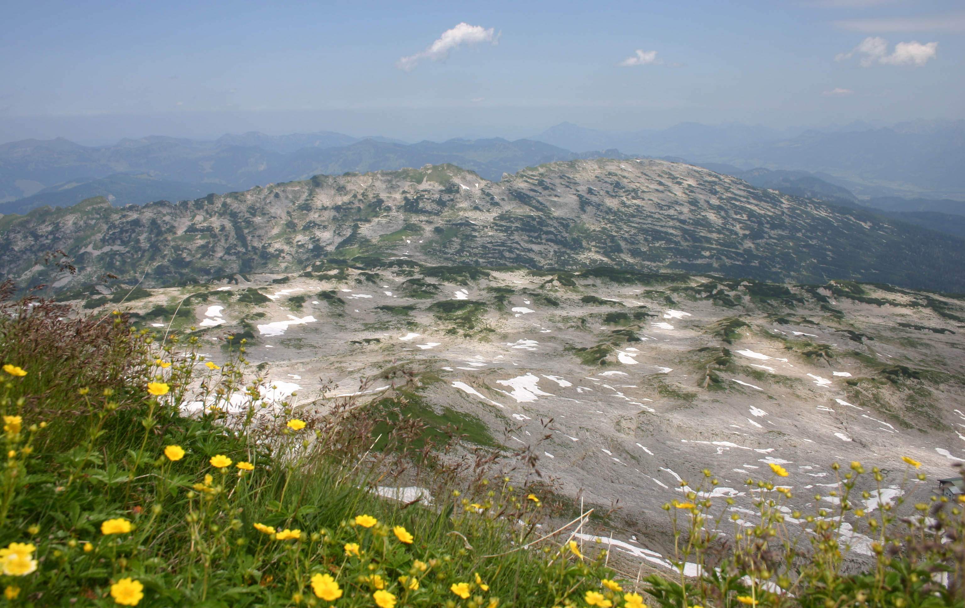 Gottesacker, picture taken from the peak of the mountain "Hoher Ifen" (2229 m).